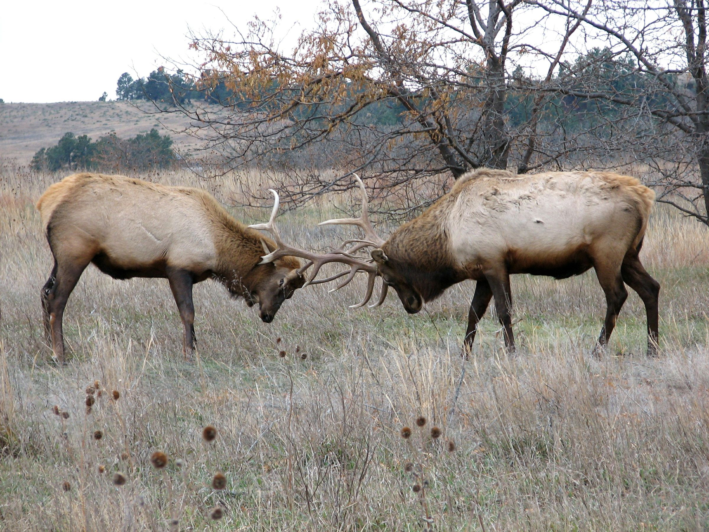 Bull elk spar in the Fort Niobrara National Wildlife Refuge wilderness. Credit: Todd Frerichs